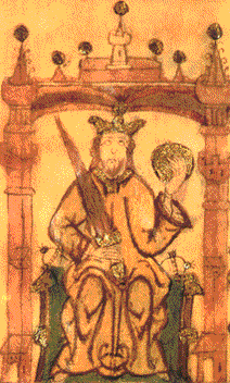 Alfonso VI of Castile